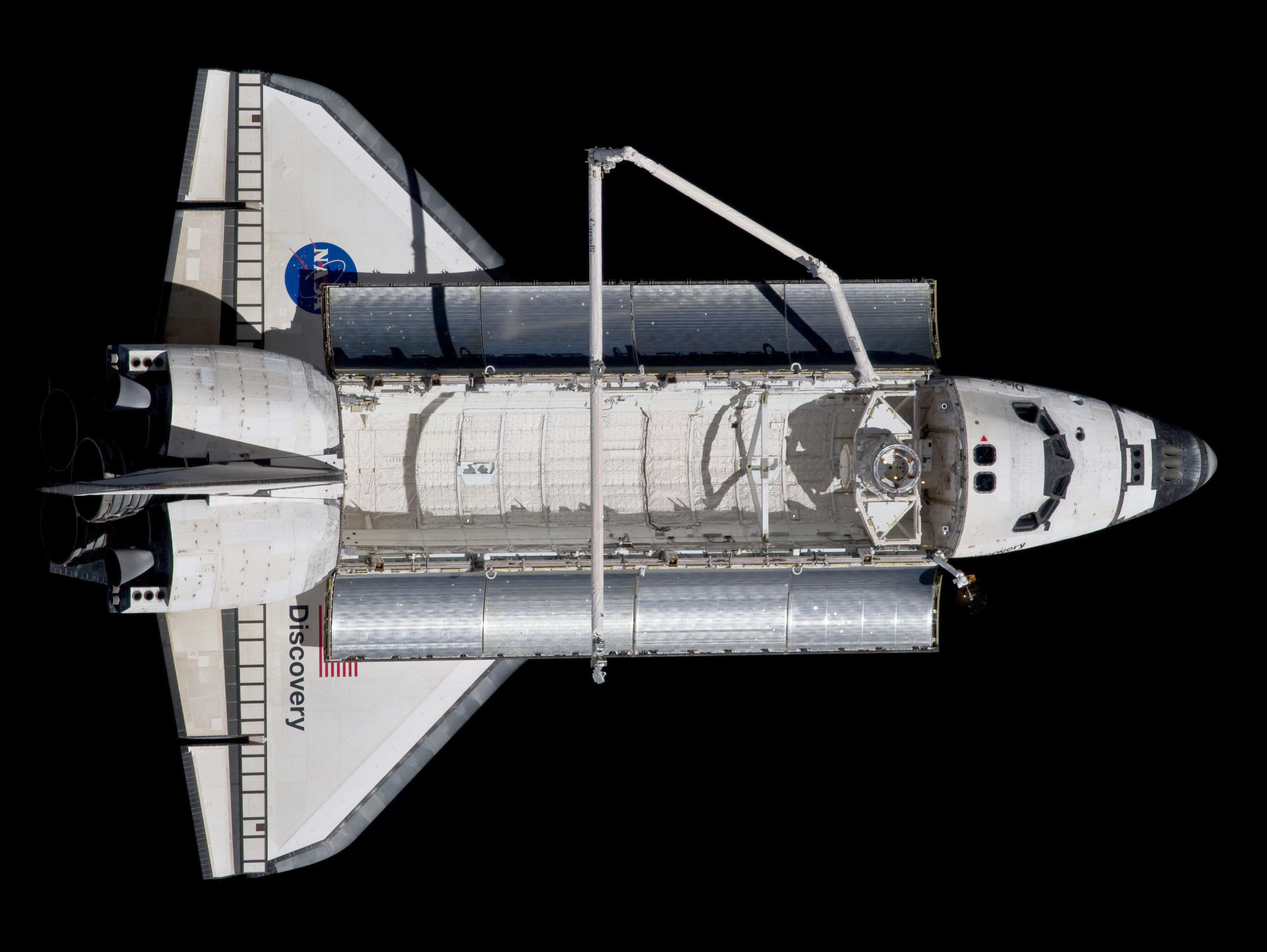 Backdropped against the blackness of space, Discovery is seen from the International Space Station as the two orbital spacecraft accomplish their relative separation on March 7 after an aggregate of 12 astronauts and cosmonauts worked together for over a week. During a post undocking fly-around, the crew members aboard the two spacecraft collected a series of photos of each other's vehicle.